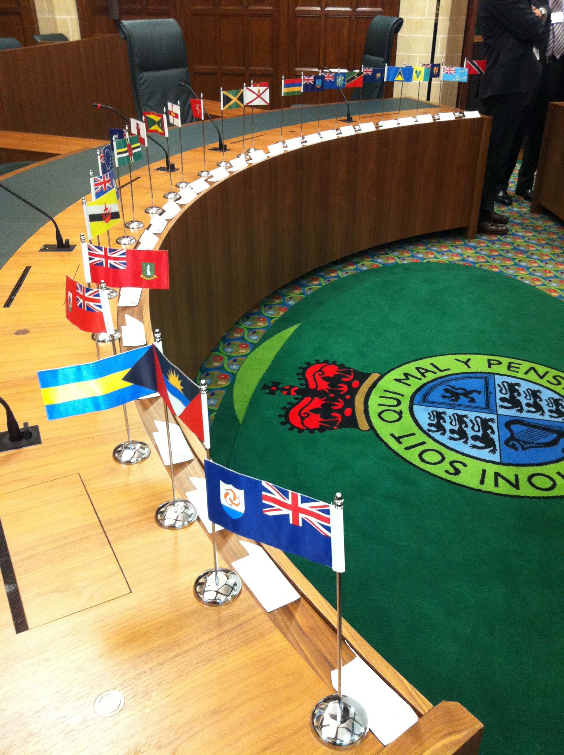 Bench in committee room 3 of the United Kingdom Supreme Court, where the Judicial Committee of the Privy Council sits